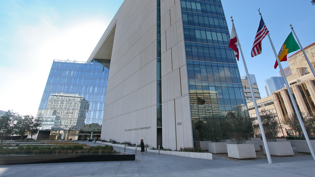 The LAPD headquarters with the United States, California, and City of Los Angeles flags.